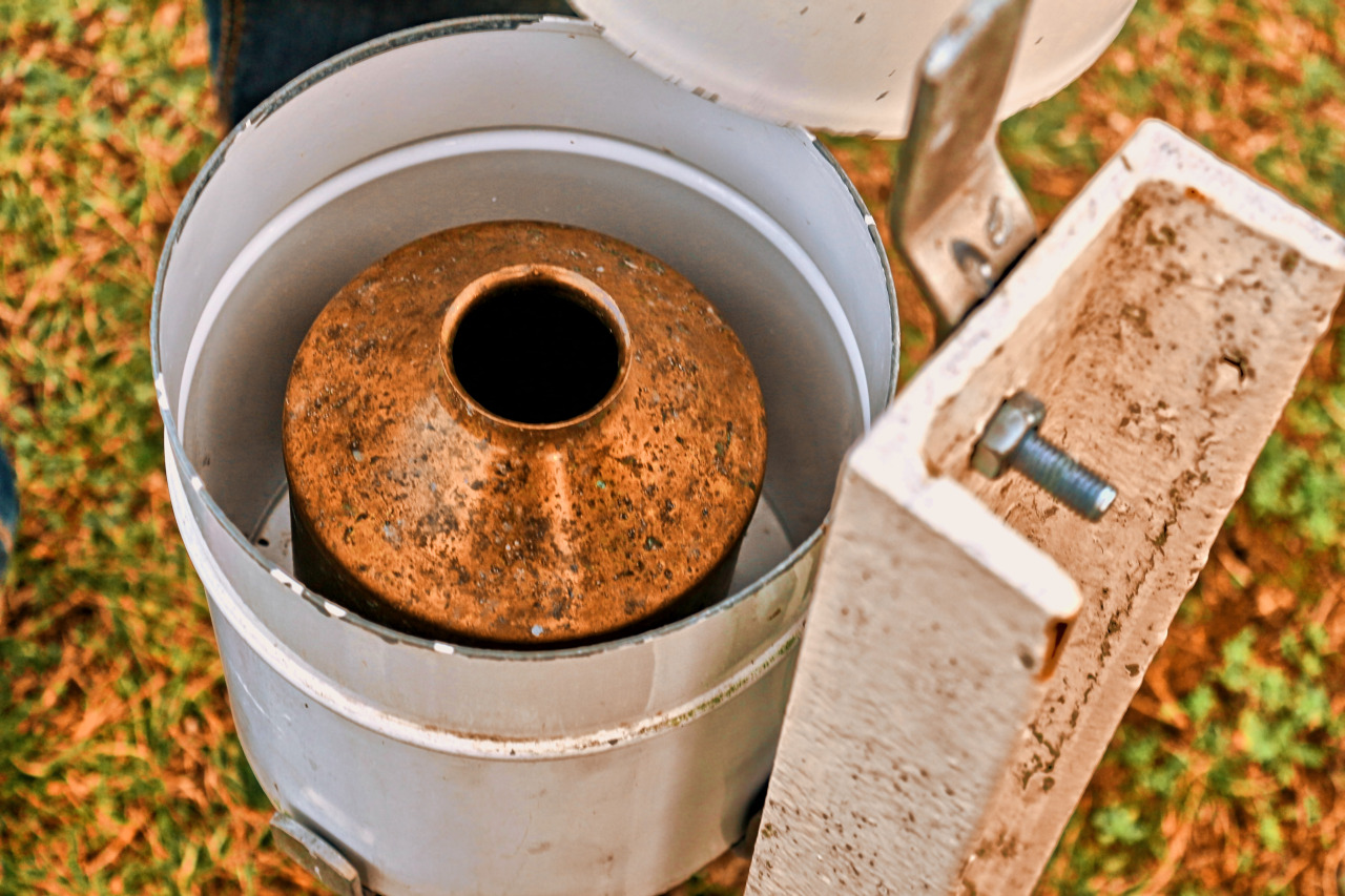 Weather Station in Radzyń